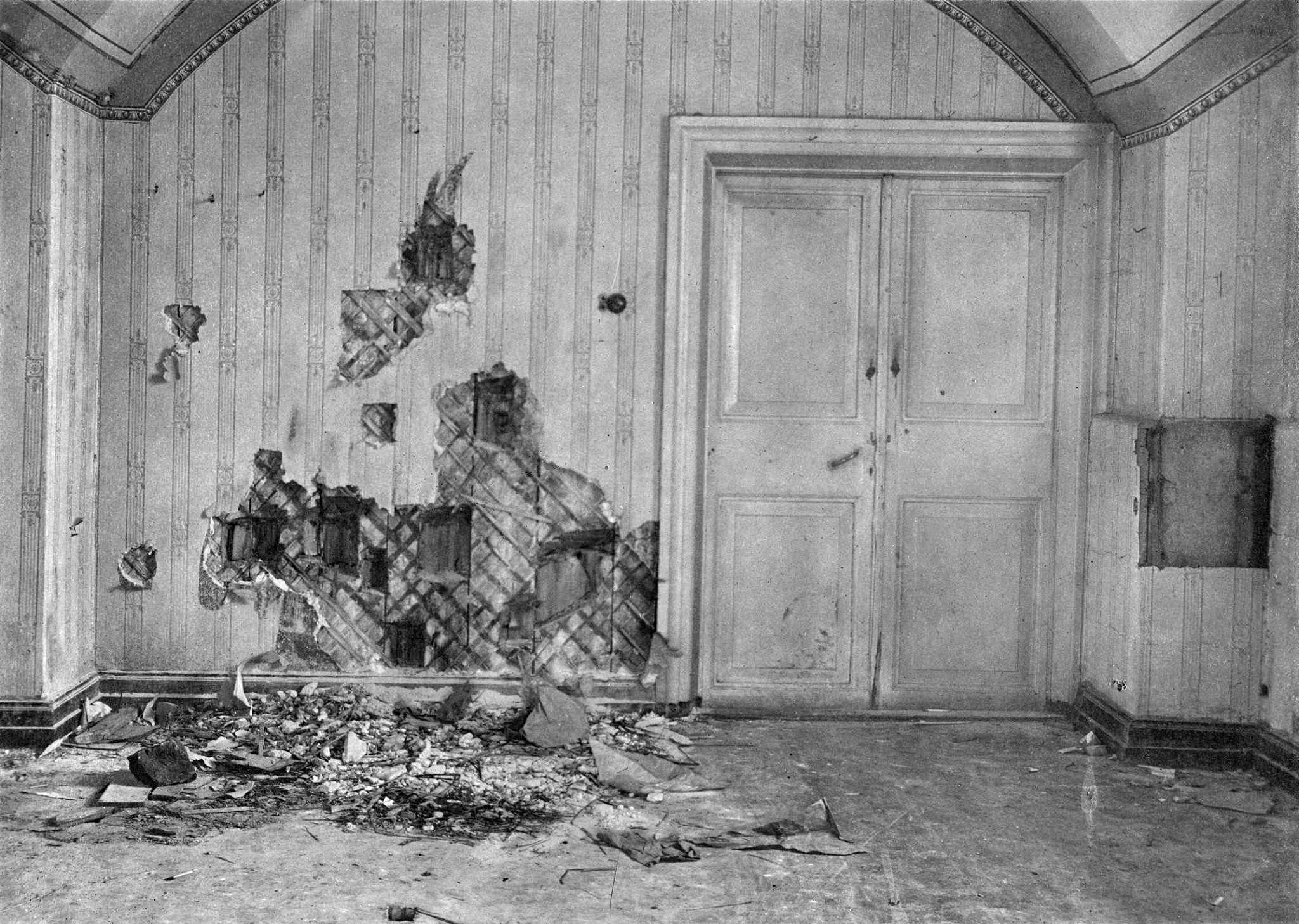 The basement of the Ipatiev house where the Romanov family was killed, the wall has been torn apart in search of bullets and other evidence by investigators following the shooting.